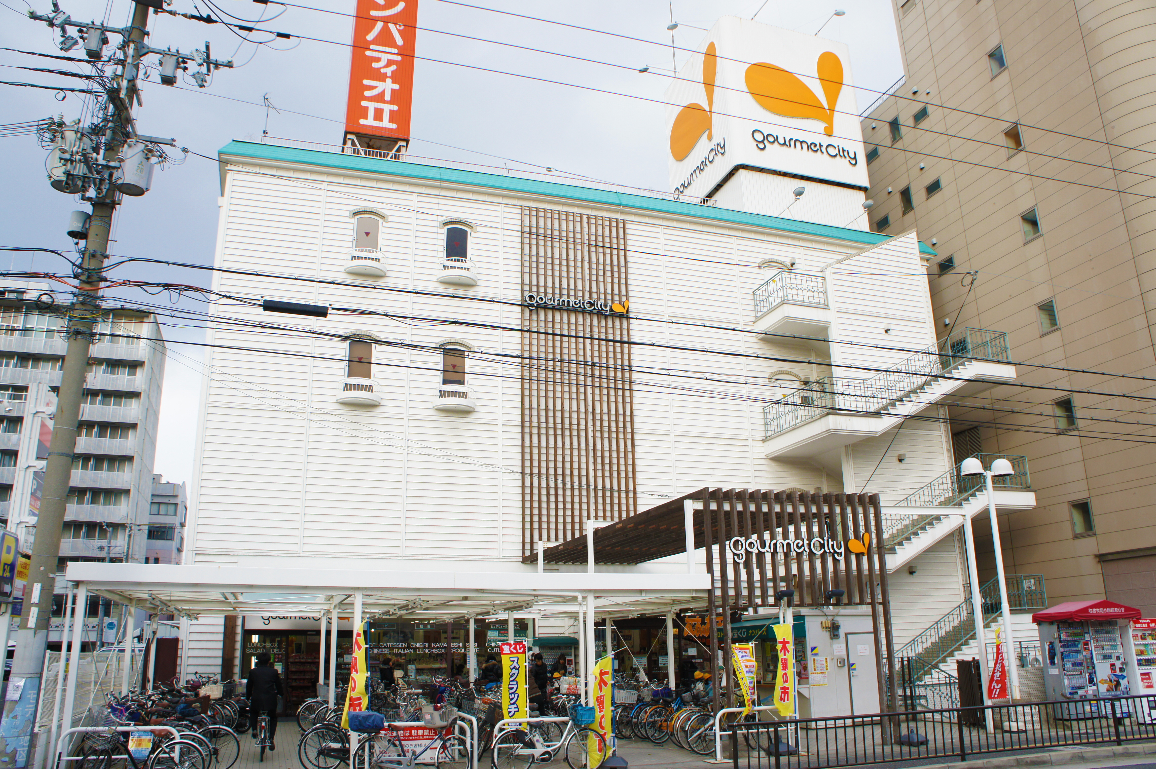 gourmetcity kinki Head Office (gourmetcity Kouenmae), 1-18-10 Esakacho Suita-City Osaka Japan.